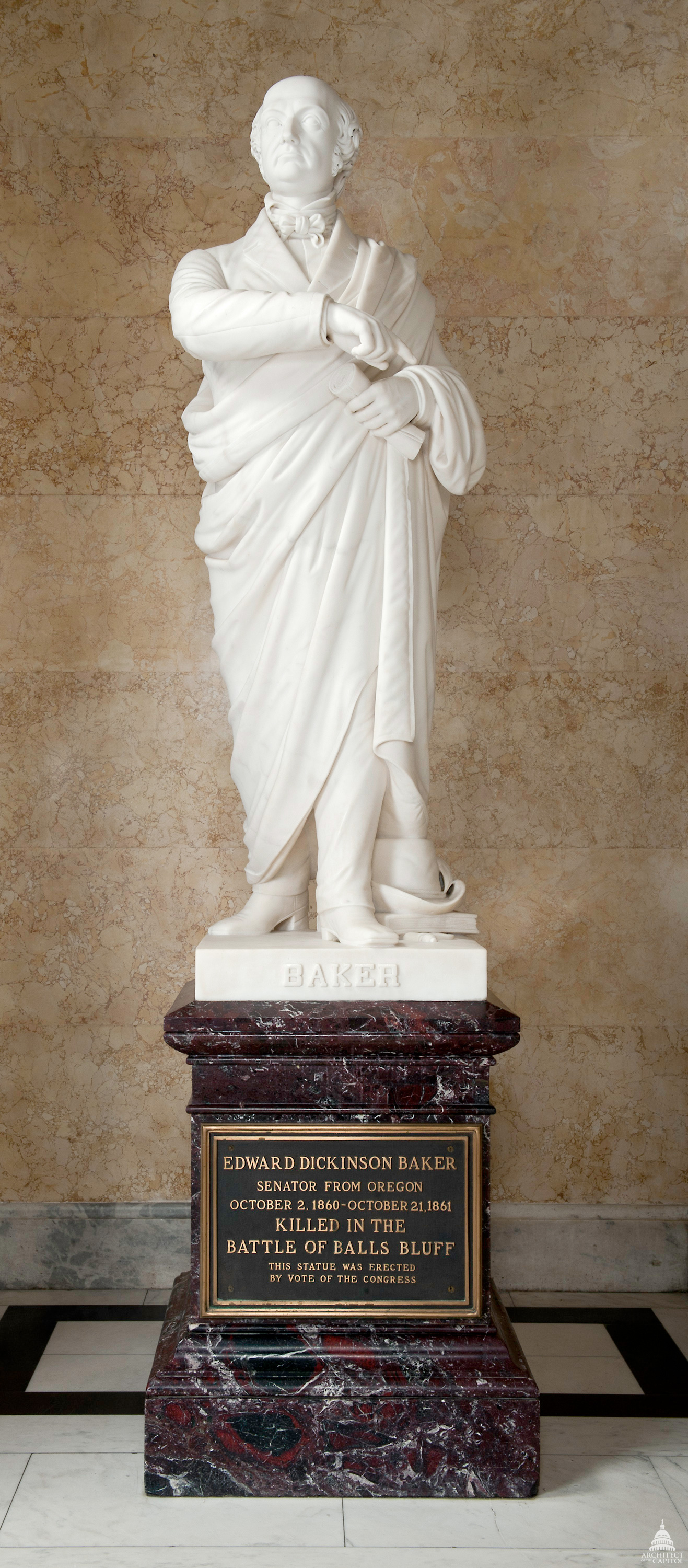 The statue of Edward Dickinson Baker by Horatio Stone is located in the Hall of Columns in the U.S. Capitol Building. Horatio Stone Marble 1876 Hall of Columns U.S. Capitol This official Architect of the Capitol photograph is being made available for educational, scholarly, news or personal purposes (not advertising or any other commercial use). When any of these images is used the photographic credit line should read “Architect of the Capitol.” These images may not be used in any way that would imply endorsement by the Architect of the Capitol or the United States Congress of a product, service or point of view. For more information visit For more information visit